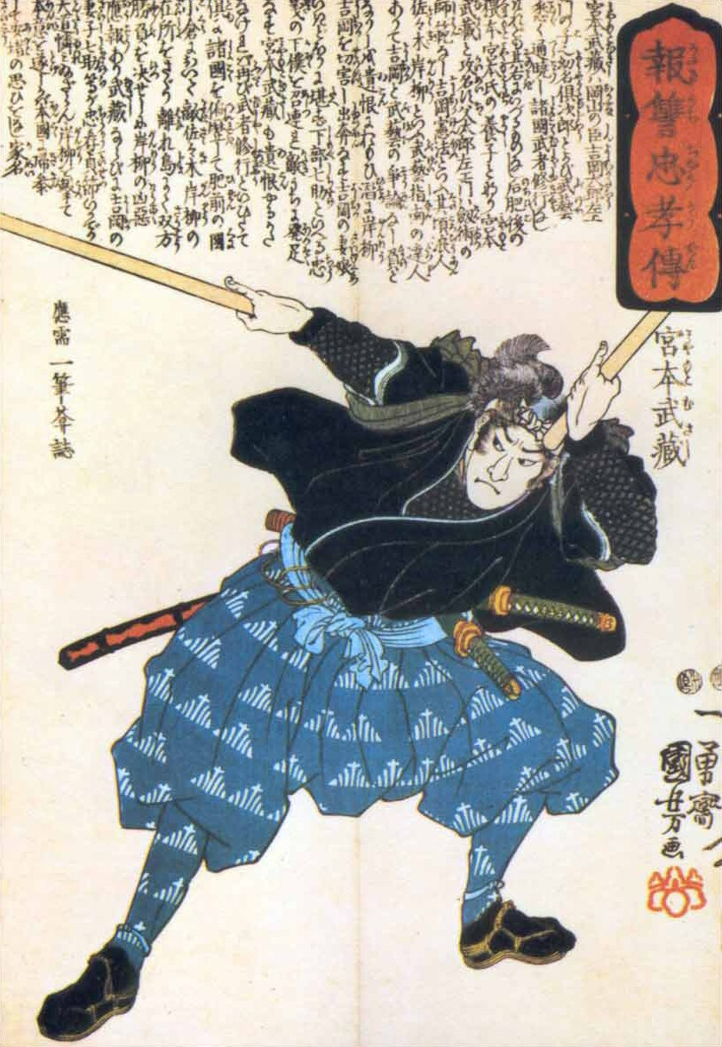 Musashi Miyamoto with two Bokken (wooden quarterstaves) Color version to replace B&W. Scan of ancient japanese scroll. Image source is: Original document is too old to copyright, hence all faithful/mechanical reproductions should also be public domain. 10:56, 29 October 2005 Alkivar 817x1182 (84726 bytes) (Color version to replace B&W. Scan of ancient japanese scroll. Image source is: Original document is too old for copyrightability, hence all reproductions also are public domain.)